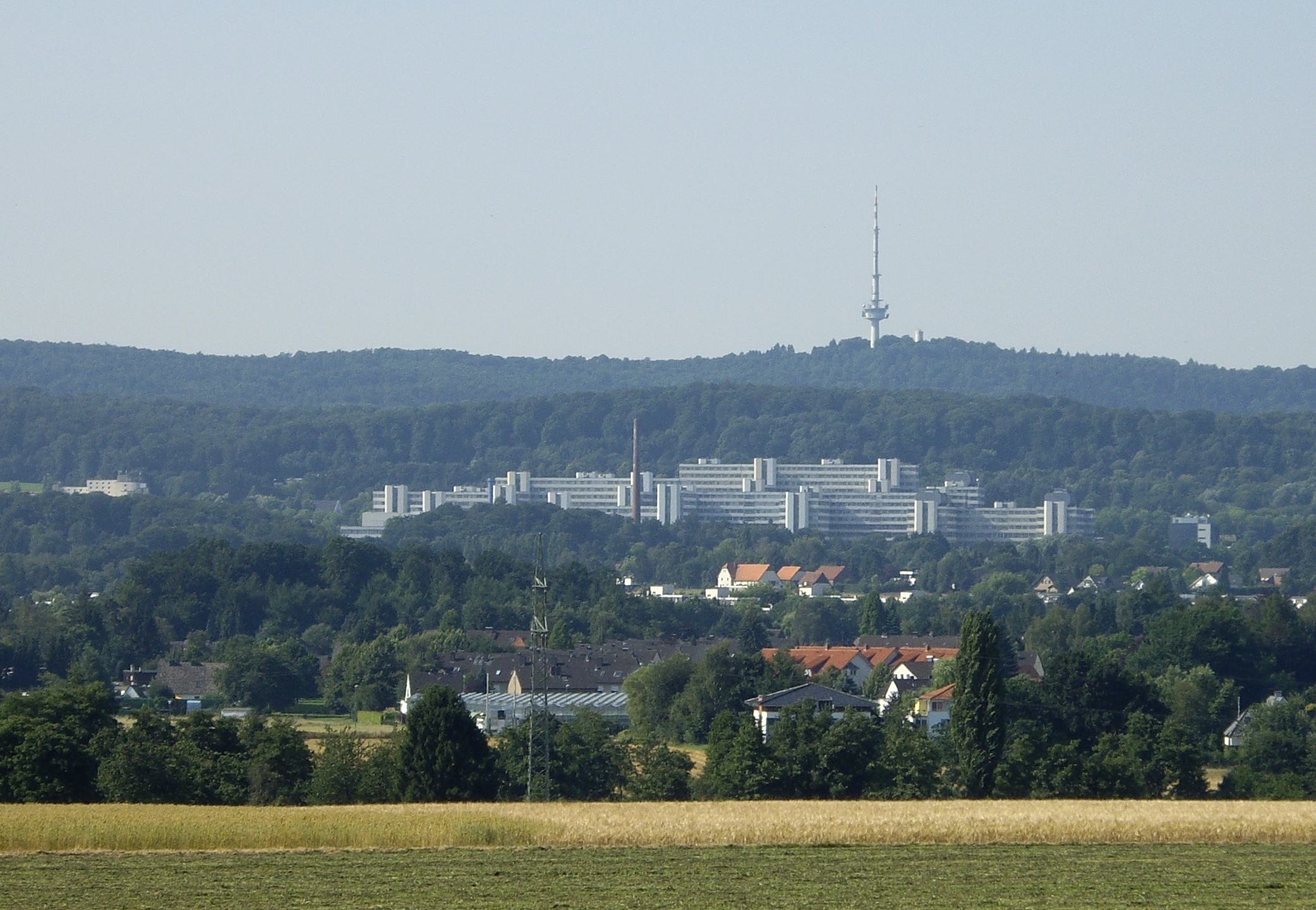 Bielefeld University at the slope of Teutoburg Forest in Bielefeld, North Rhine-Westphalia, Germany. At the top of the mountain Hünenburg Telecommunication Tower and Hünenburg Observation Tower are visible.